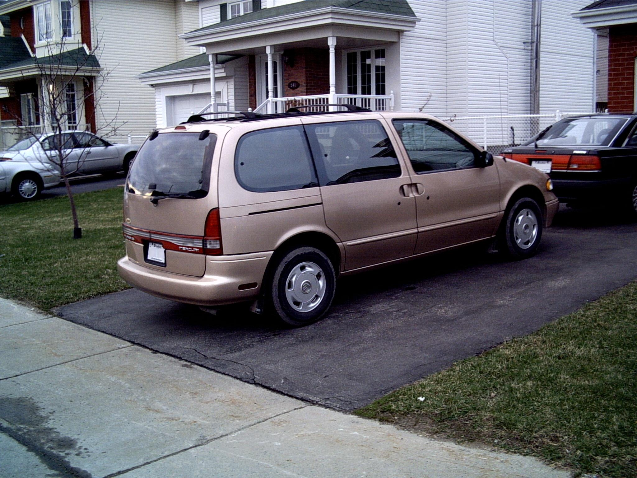 1996-1998 Mercury Villager photographed in Pointe-Claire, Quebec, Canada.